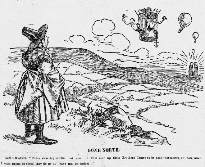 Social cartoon by JM Staniforth. Dame Wales complains of two of her best rugby union players, brothers David and Evan James 'Going North' by joining rugby league club Broughton Rangers. LSD on the magnet represents Pounds/Shillings/Pence.